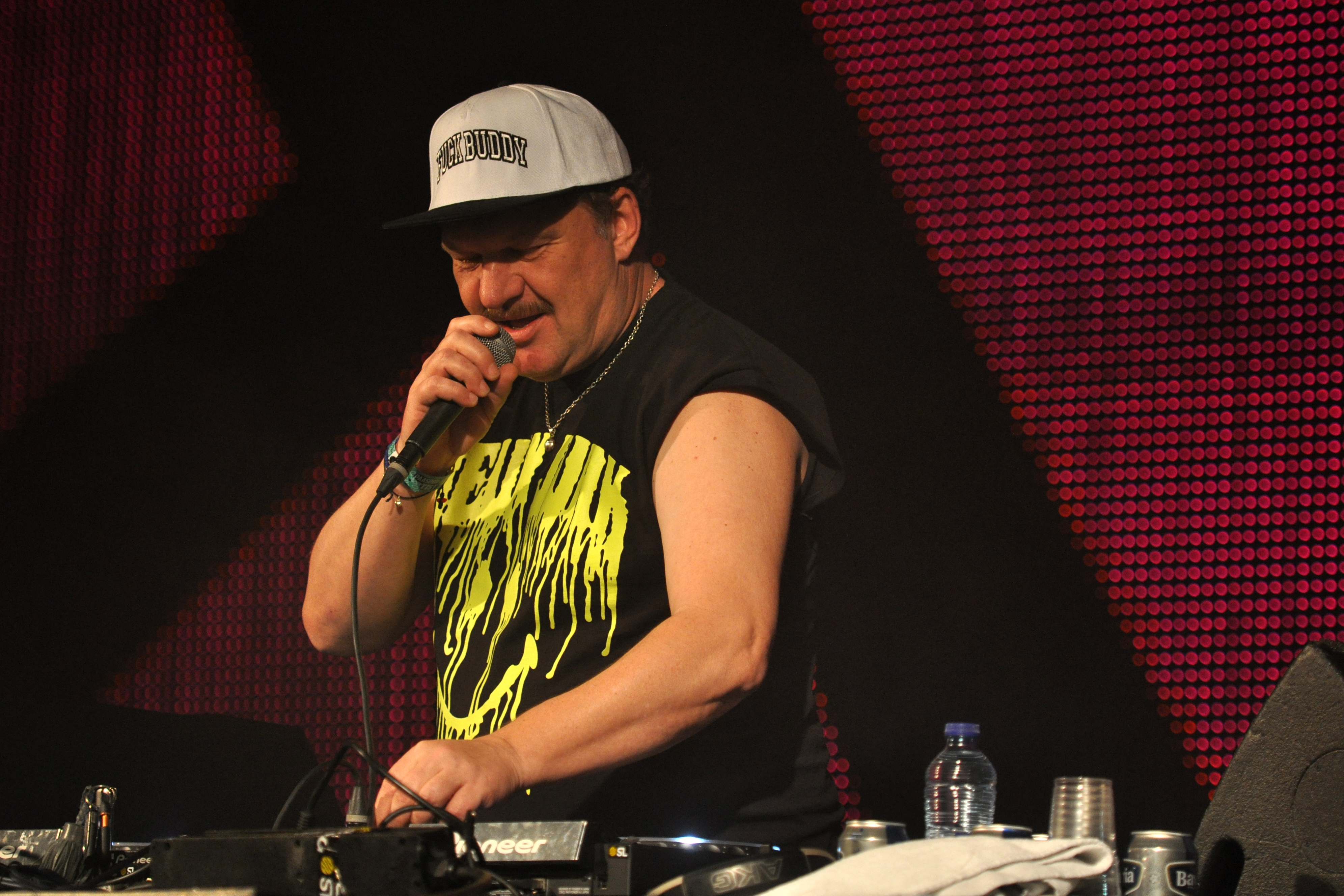 DJ Joost van Bellen at Paaspop 2014